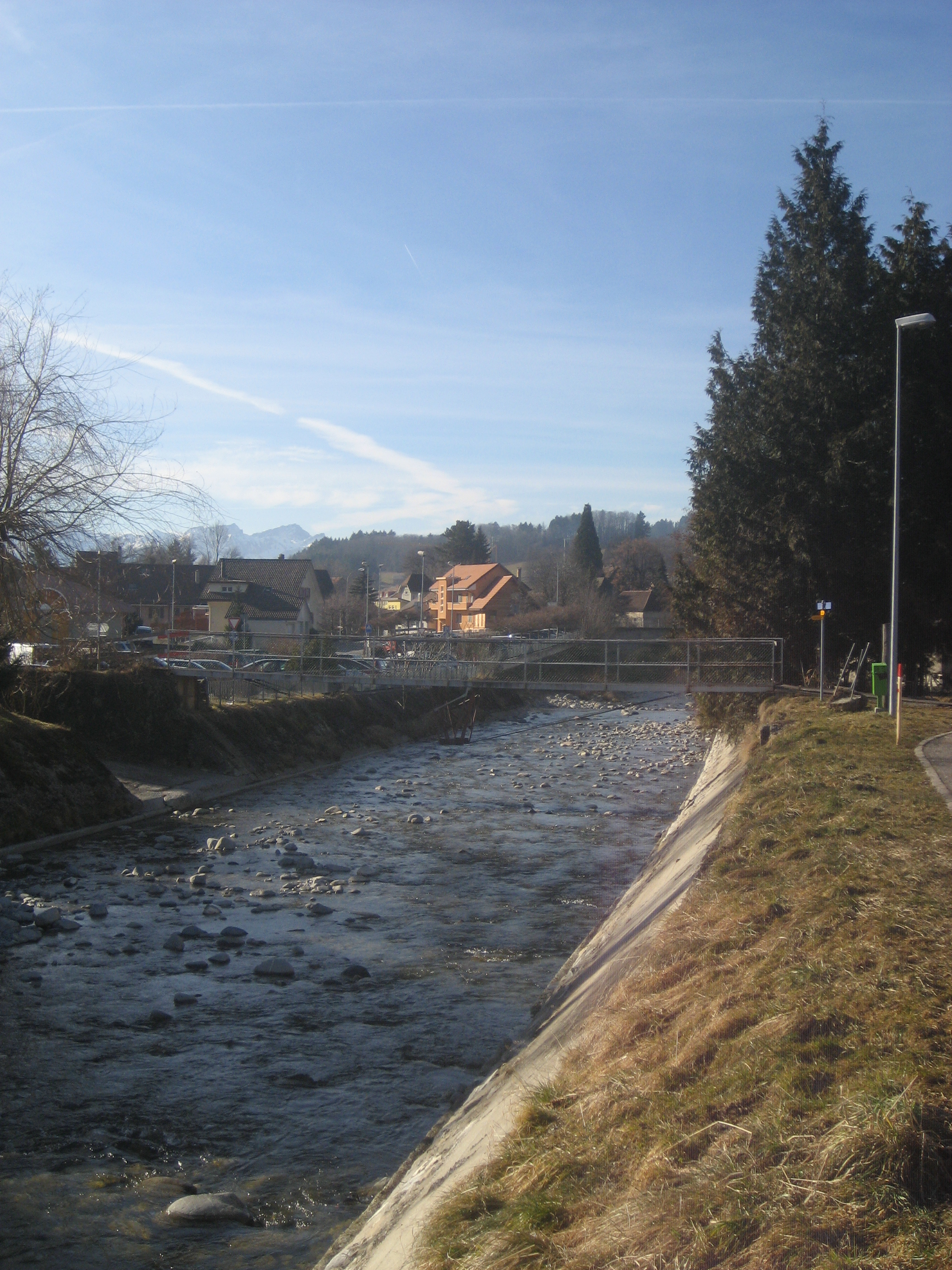 View of La Veveyse